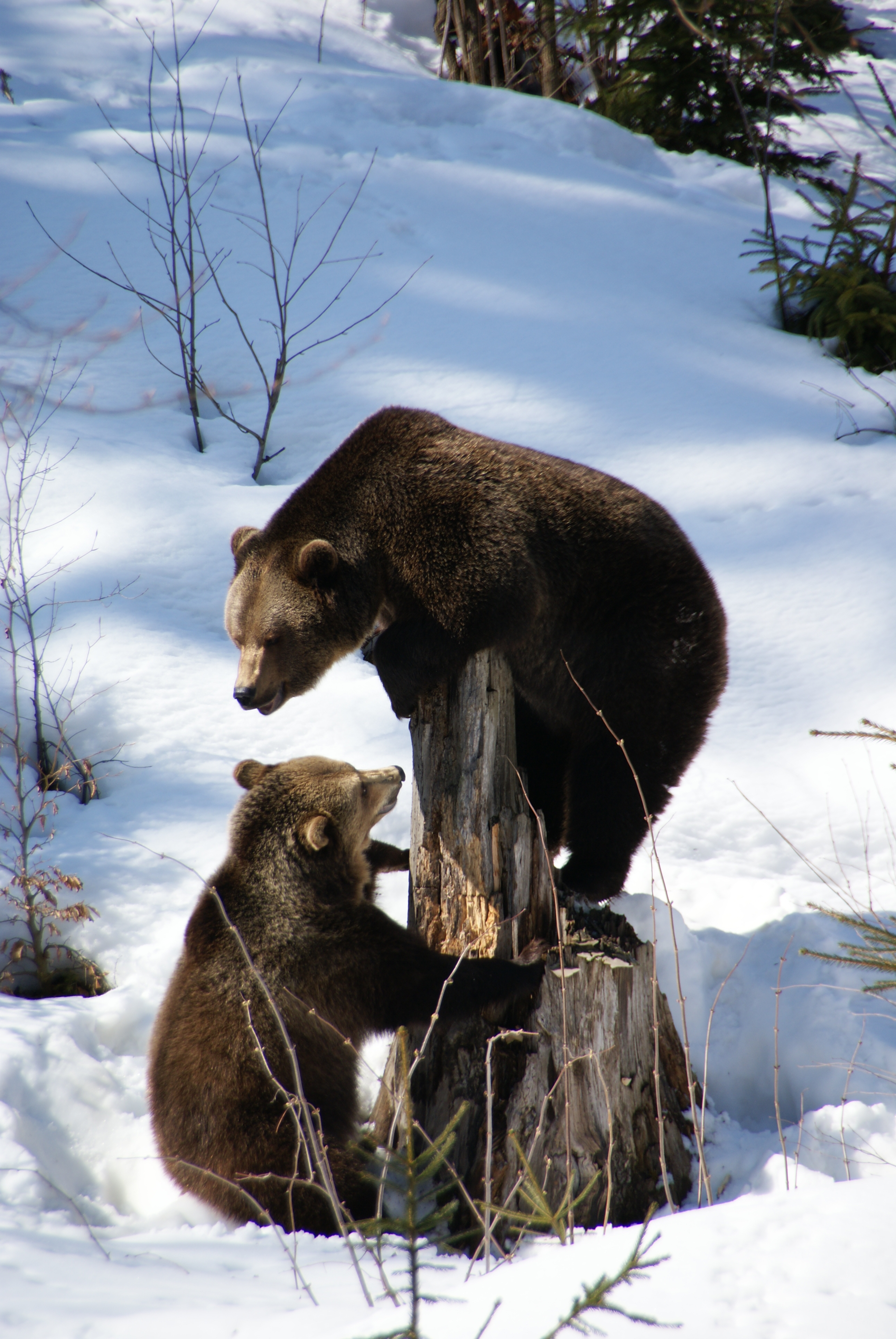 Brown Bears in an open-air enclosure at the National Park Bavarian Forest